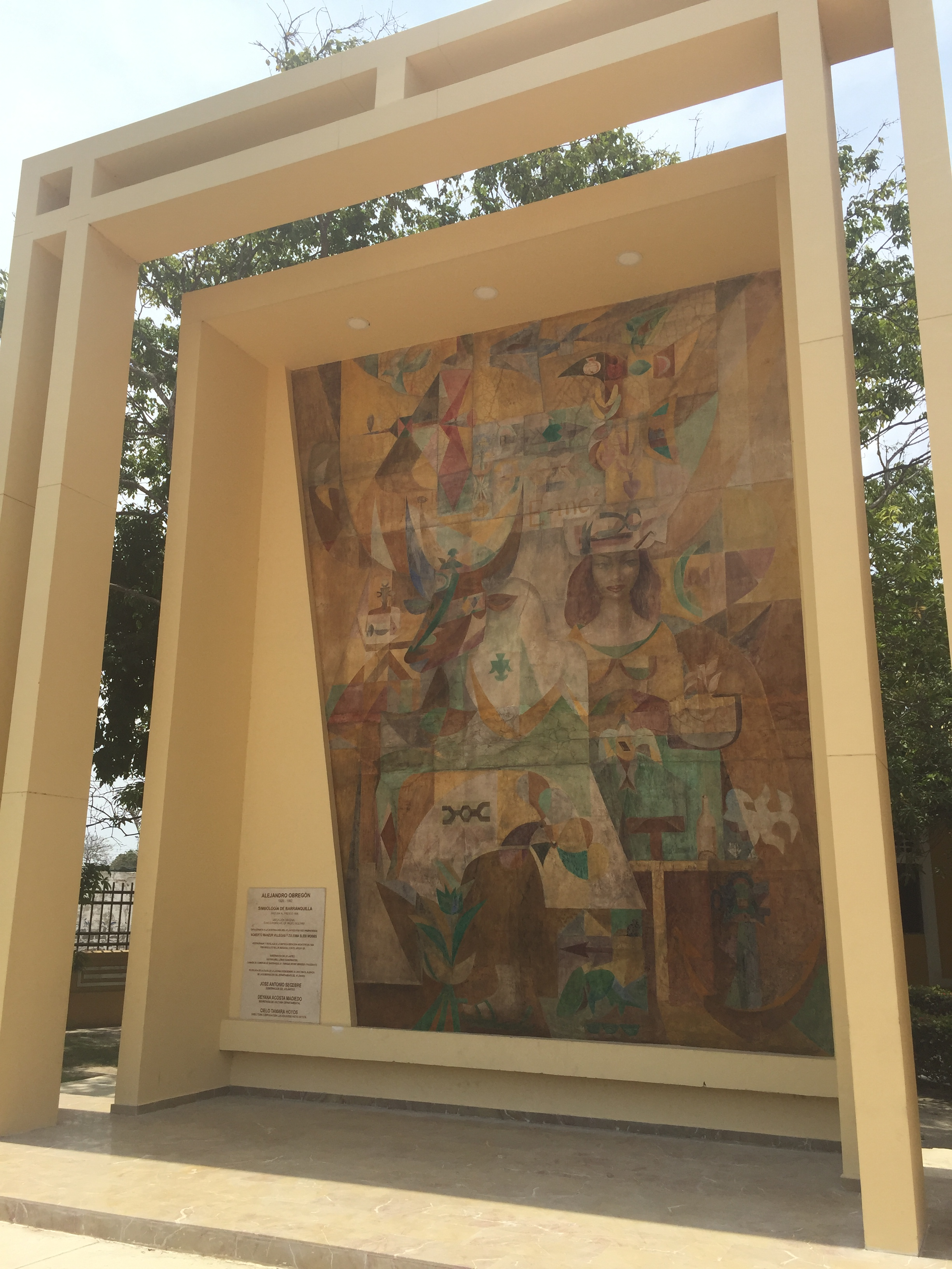 Mural Simbología de Barranquilla